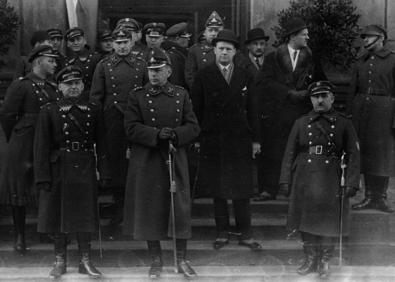 Delegation of Aizsargi organization in Warsaw (1933). In picture Władysław Rusin, Karlis Prauls, Alfred Berzins.